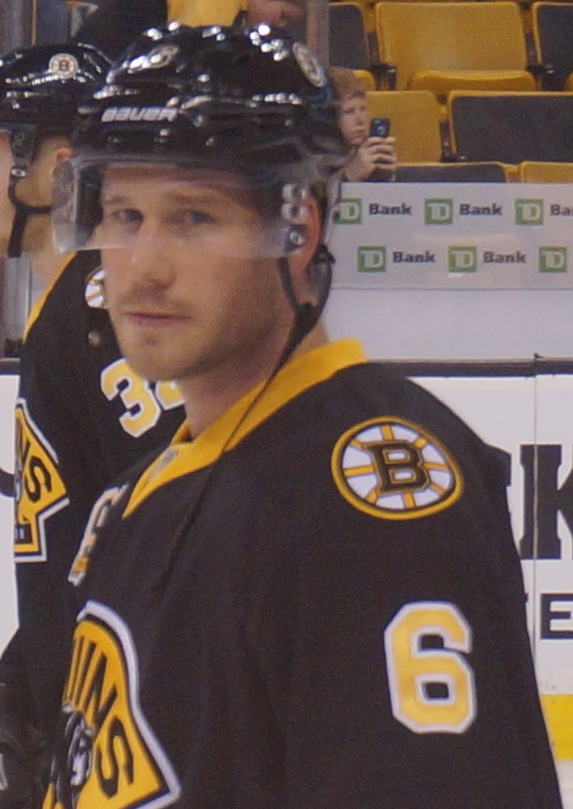 Corey Potter at warm-ups at TD Garden, Boston, MA prior to the game against the Flyers on April 5, 2014.